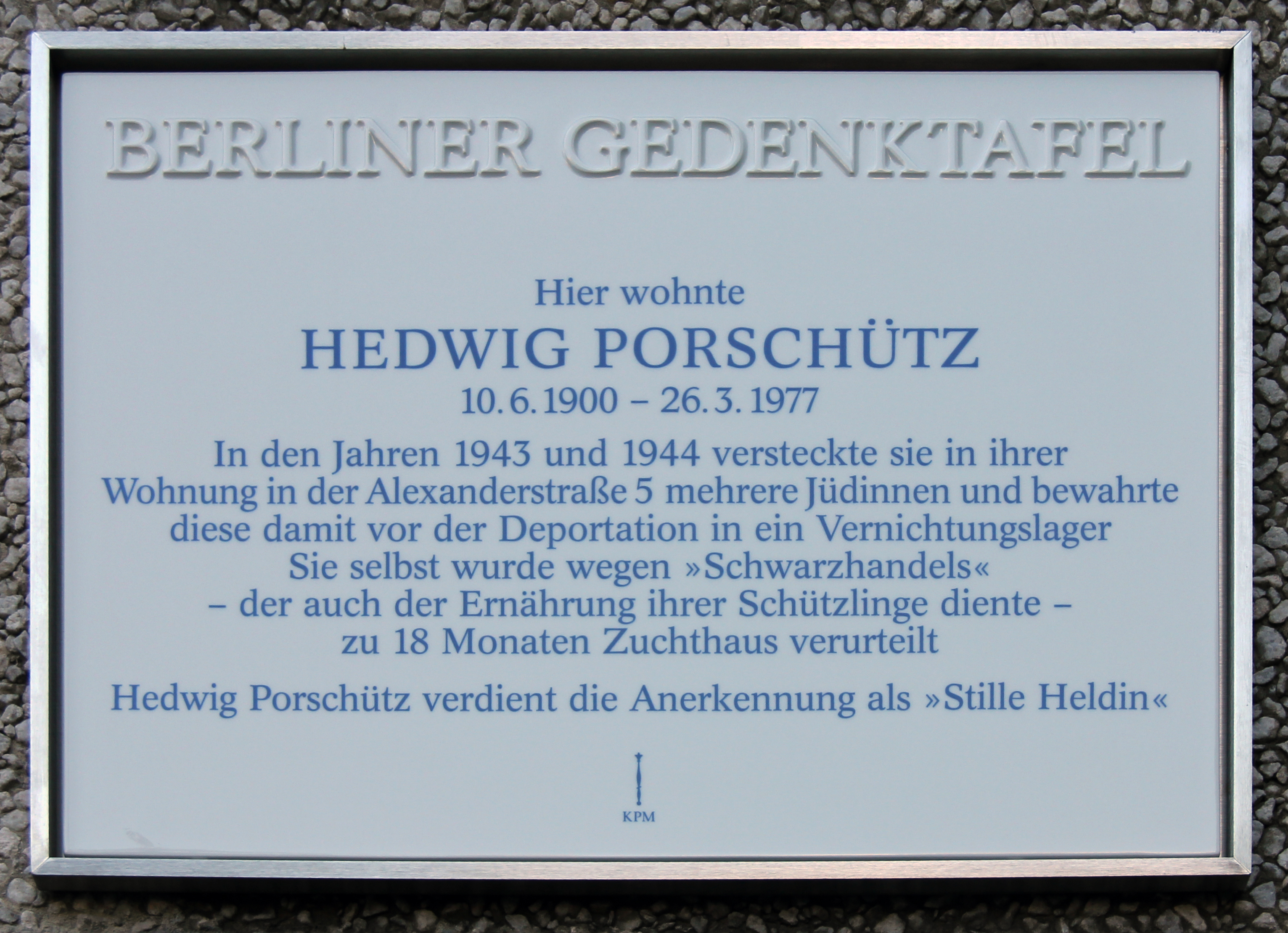 Berlin memorial plaque, Hedwig Porschütz, Feurigstraße 43, Berlin-Schöneberg, Germany